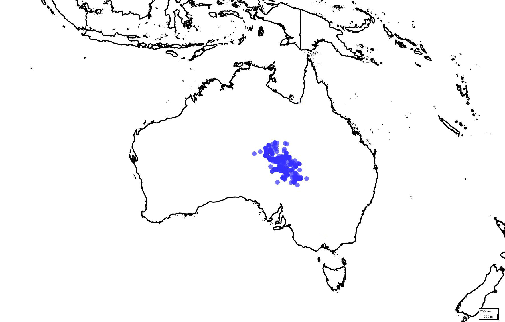 Map from Atlas of Living Australia Eyrean grasswren records